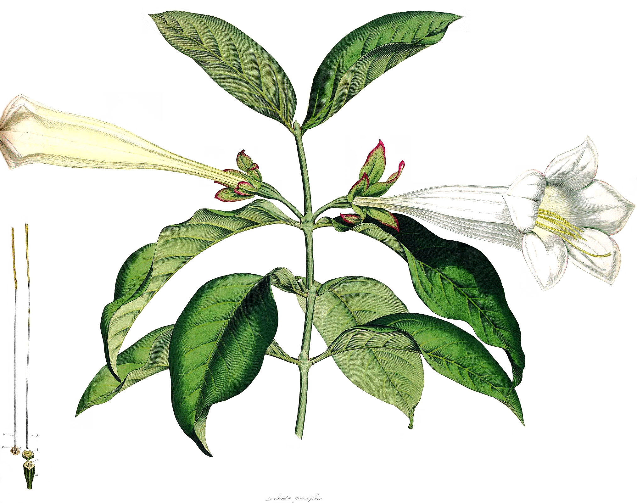 Plate from book